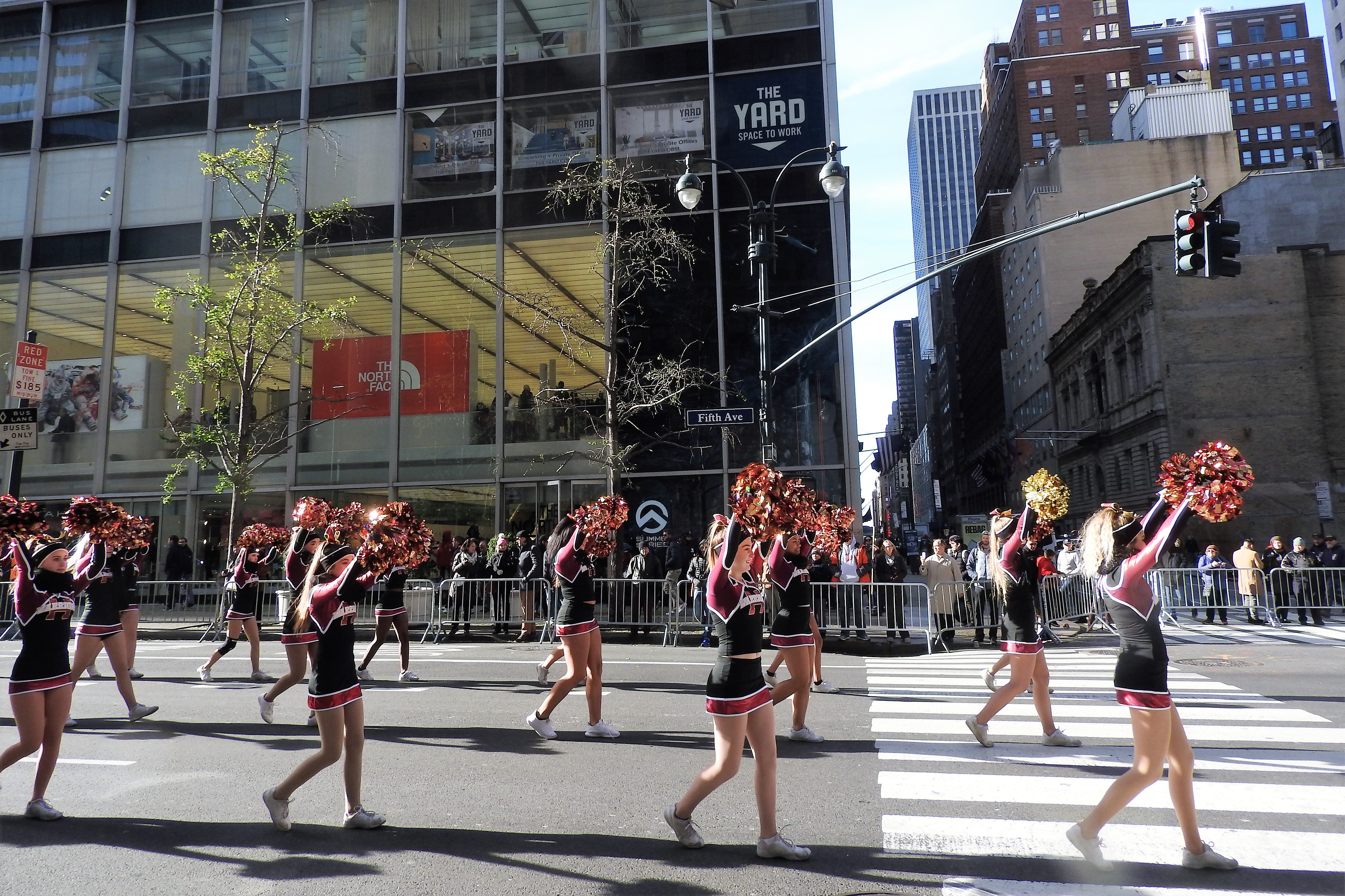 Looking west at band from Maryland passing 43rd Street